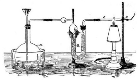 Drawing of the Marsh apparatus for the detection of arsenic